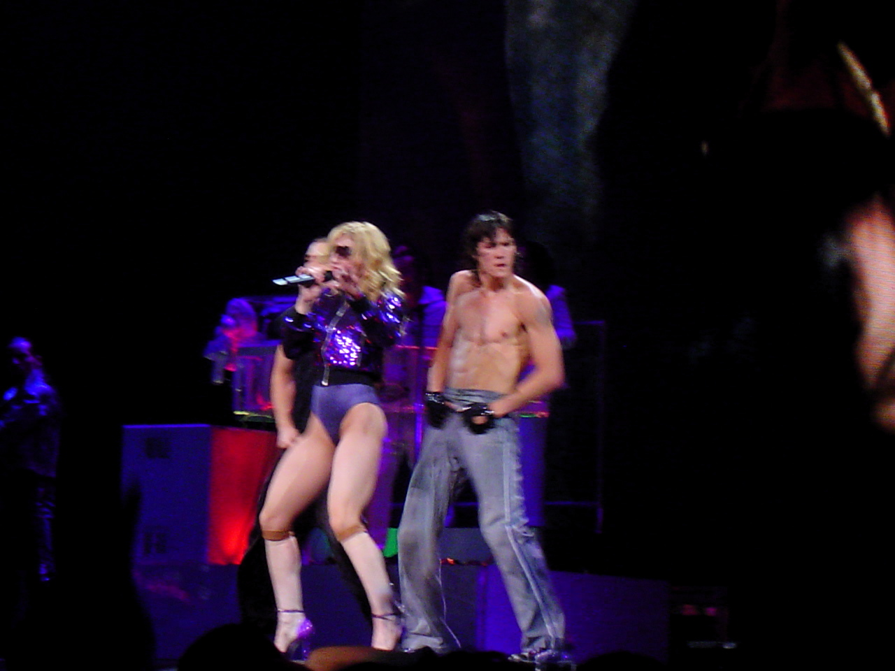 Madonna and Cloud in the show Confessions on the Dancefloor